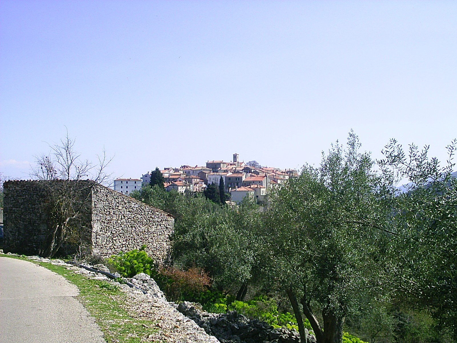 A town of Beli at the Cres Island, Croatia